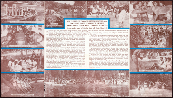 Promotional flyer for Paradise Park, Florida, a park for colored during the racial segregation period.